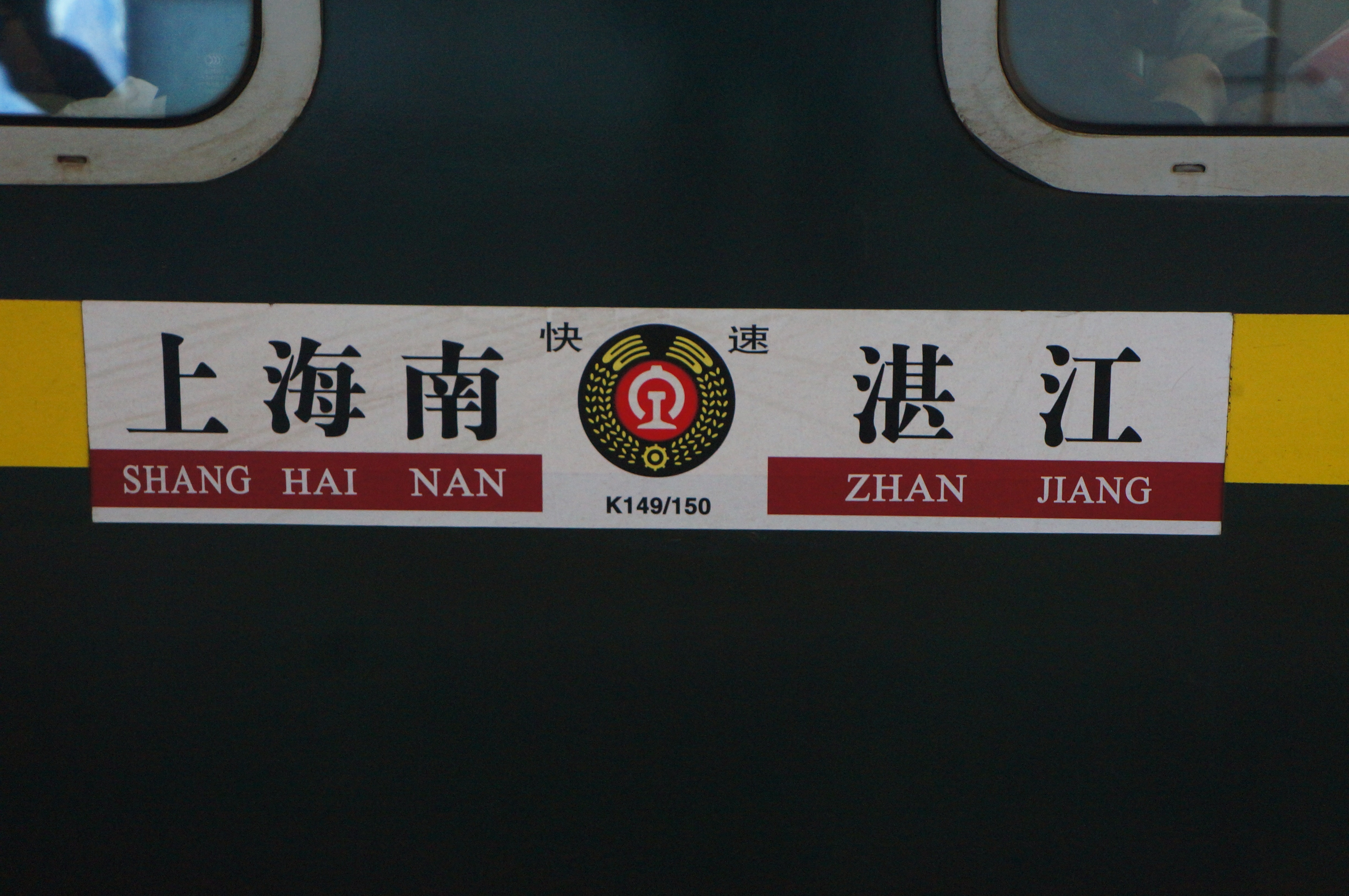 Arrives after K1181...when all passengers get to the Platform 3, the platform agent tells them the platform is changed to platform 1...the train is already there when everyone gets onto the platform 1.